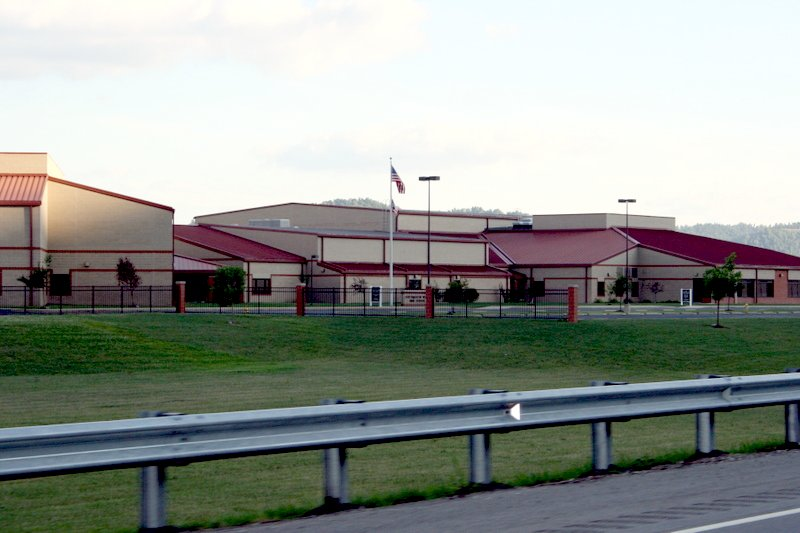 Portsmouth West High School, West Portsmouth, Ohio, United States (viewed from U.S. 52/west of Portsmouth, Ohio)